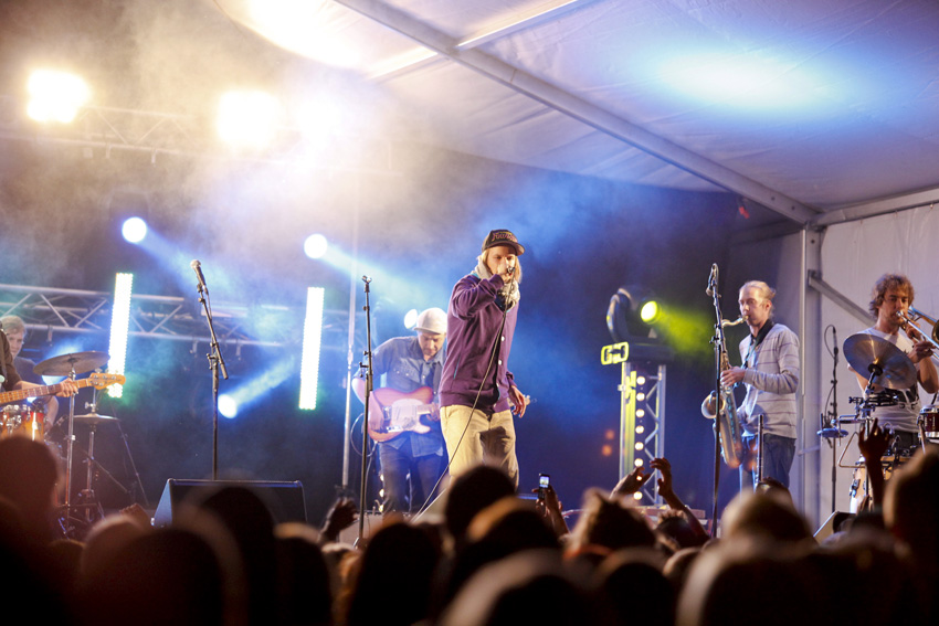 Jukka Poika keikalla Sulatto 2011 -tapahtumassa Raahessa.